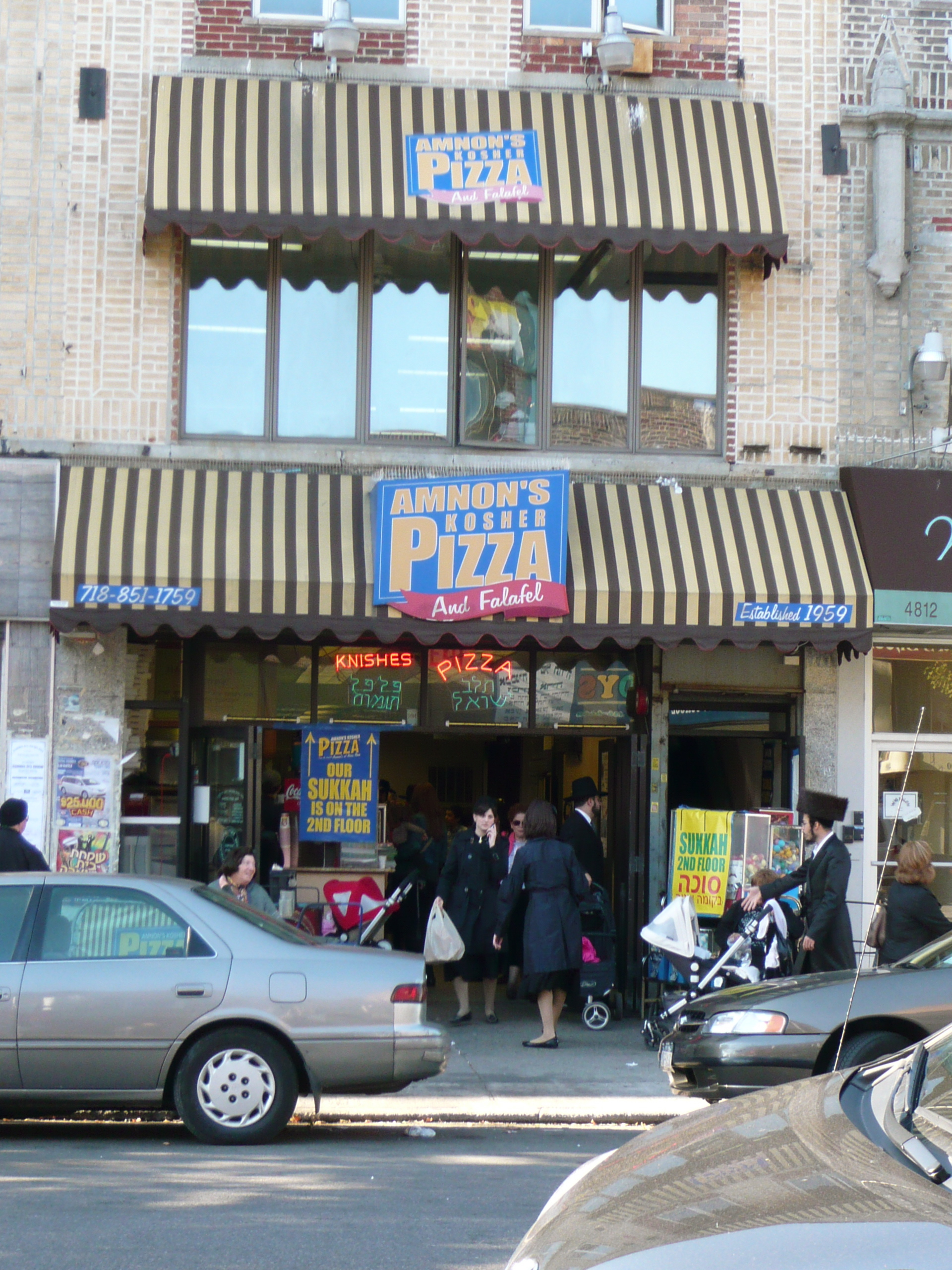 Amnon's Kosher Pizza and Falafel at 4814 Thirteenth Avenue, Borough Park, Brooklyn, NY.